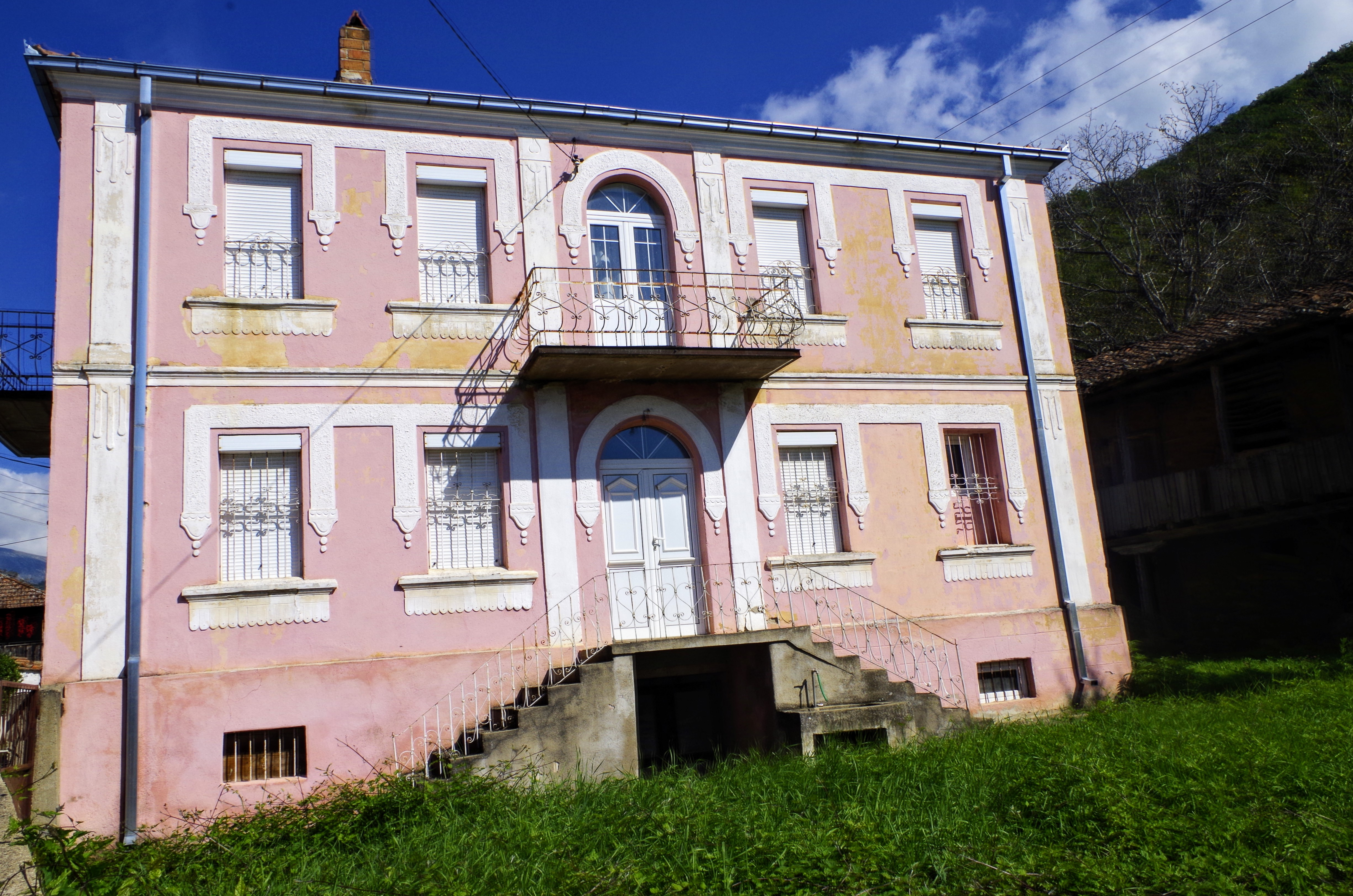 View of the old house in the village Ljubojno